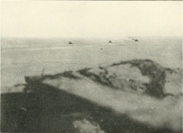 Charlestonian photographer, George S. Cook, took action shots on Sept. 8, 1863 during the Union bombardment of Fort Sumter and Fort Moultrie. Having climbed to the top of the parapet of Fort Sumter, he photographed the USS Weekawken, USS Montauk and USS Passaic (at a range of approximately 2 miles) while they fired on Fort Moultrie. Cook's presence on the parapet drew the fire of Union artillery on Morris Island and Cook saw a shell pass close to him and then another knocked his plate holder into the water cistern. He paid a soldier five dollars to retrieve it and was ordered to get down.